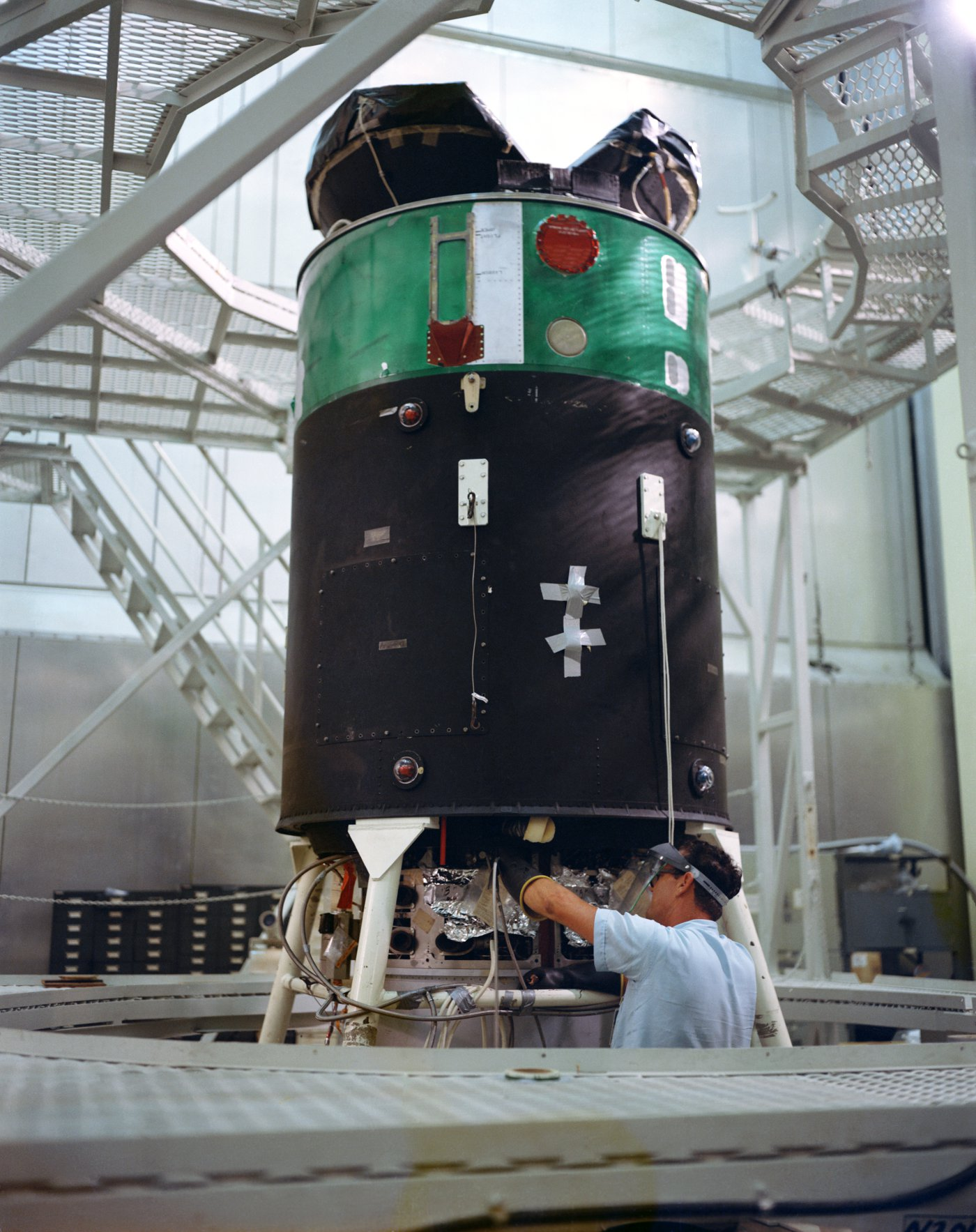 The Gemini Augmented Target Docking Adapter ATDA during pre-flight checkout in the Kennedy Space Center's Cryogenic Building. The ATDA is being used because the Agena Target Vehicle failed to achieve orbit on May 17th, 1966, causing the postponement of the Gemini 9 mission. The mission renamed Gemini 9-A has been rescheduled for May 31st.